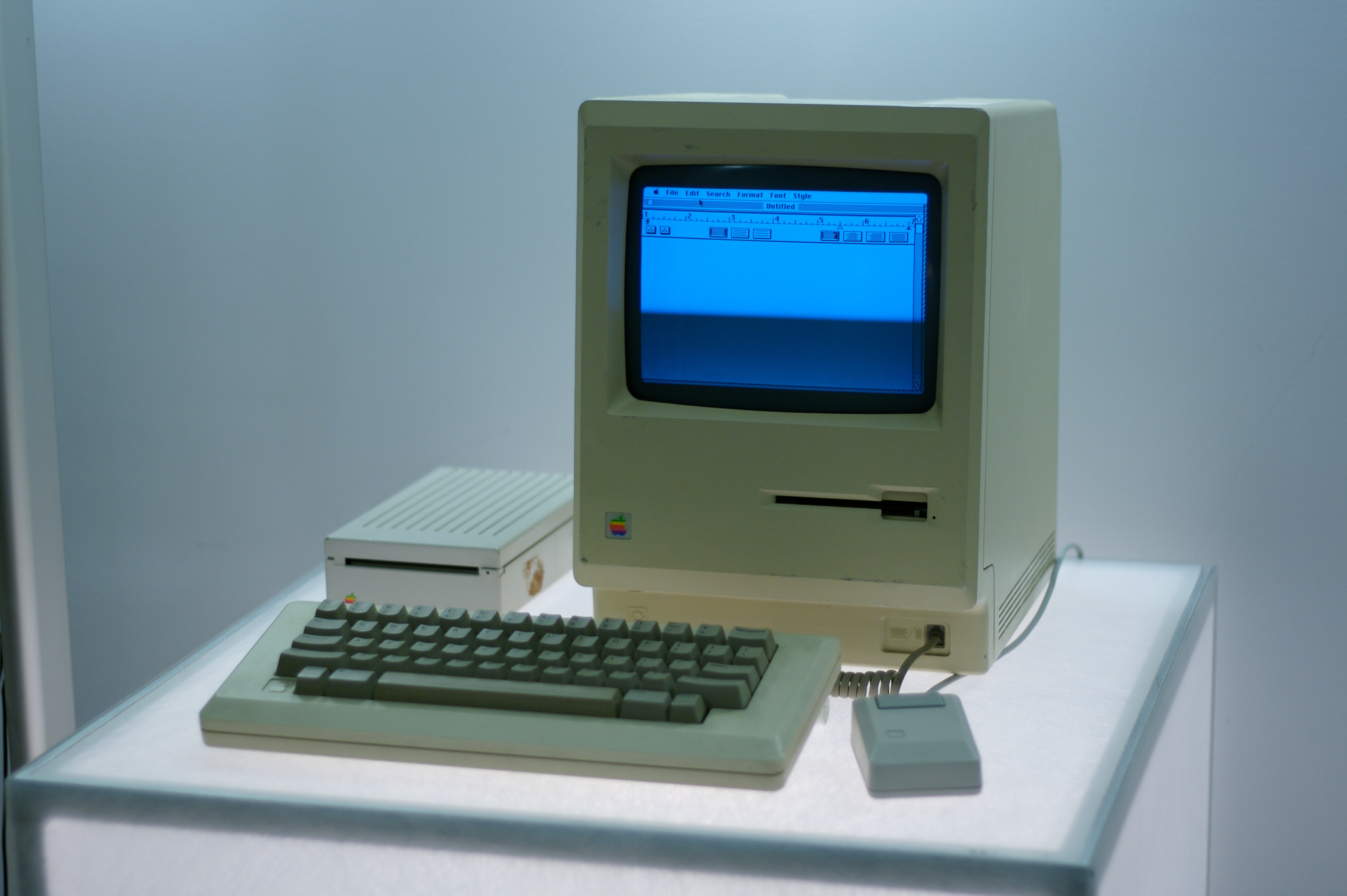 Macintosh, Google NY office computer museum A small museum at the Google New York office, put together by Craig Nevill-Manning. Unfortunately, no public access, but if you know a NYC Googler, ask around! :)